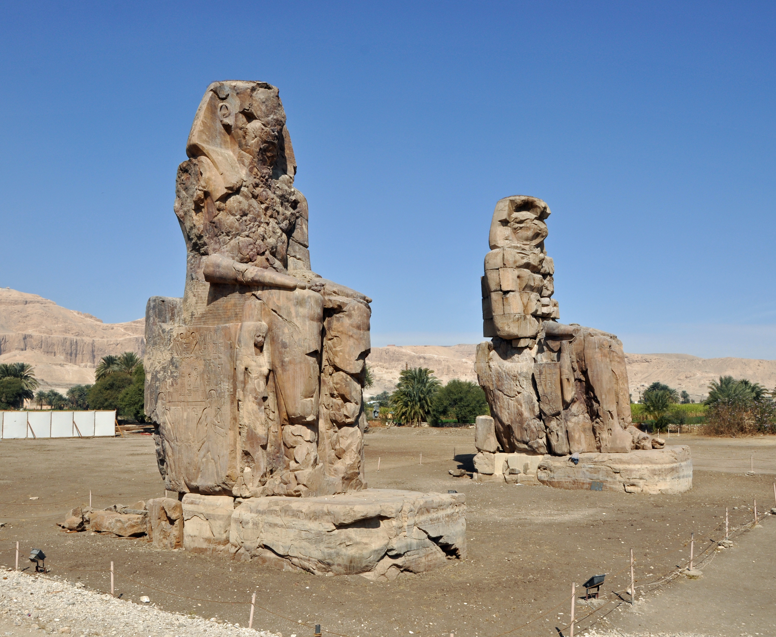 Luxor (Egypt): the Colossi of Memnon